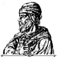 Dmitry of Suzdal